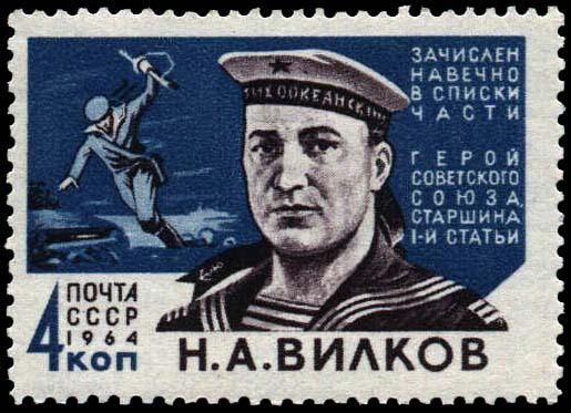 USSR stamp: World War II Hero Junior Sergeant of the Guard Yury Smirnov and Captivity Scene. Series: Heroes of World War II.